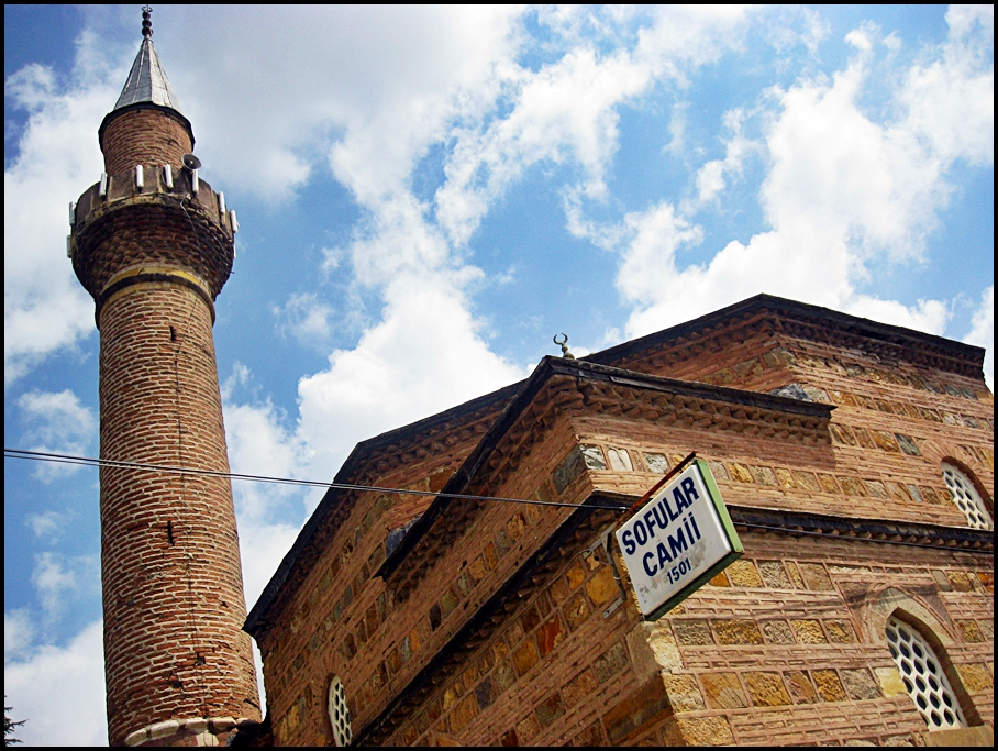 Merzifon Sofular Mosque, 1501